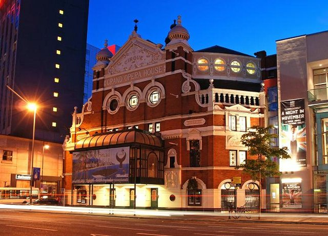 The Grand Opera House, Belfast (1). See 82907. The Grand Opera House, Gt Victoria Street, at night with the last light left in the sky. See also 1480034.